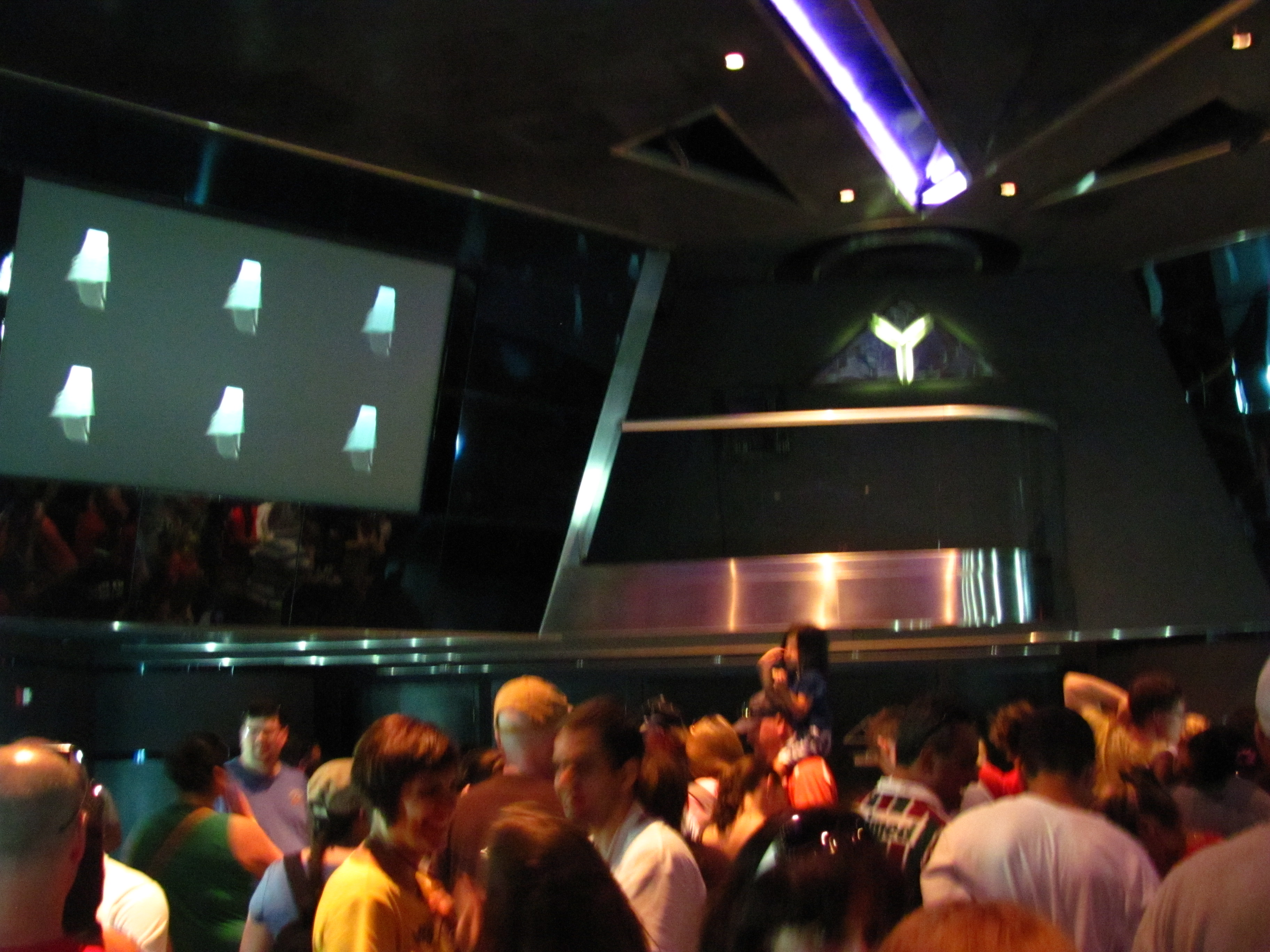 Terminator 2: 3-D